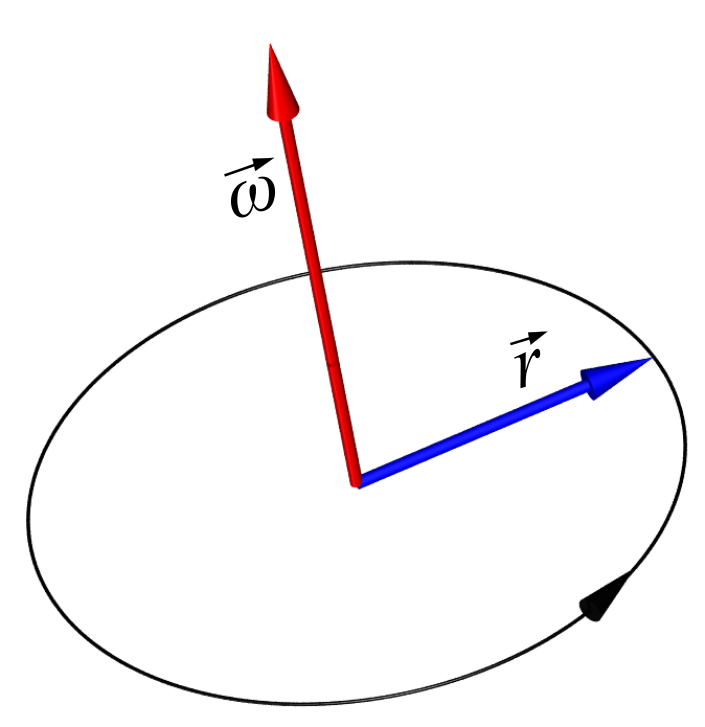 Pseudovector